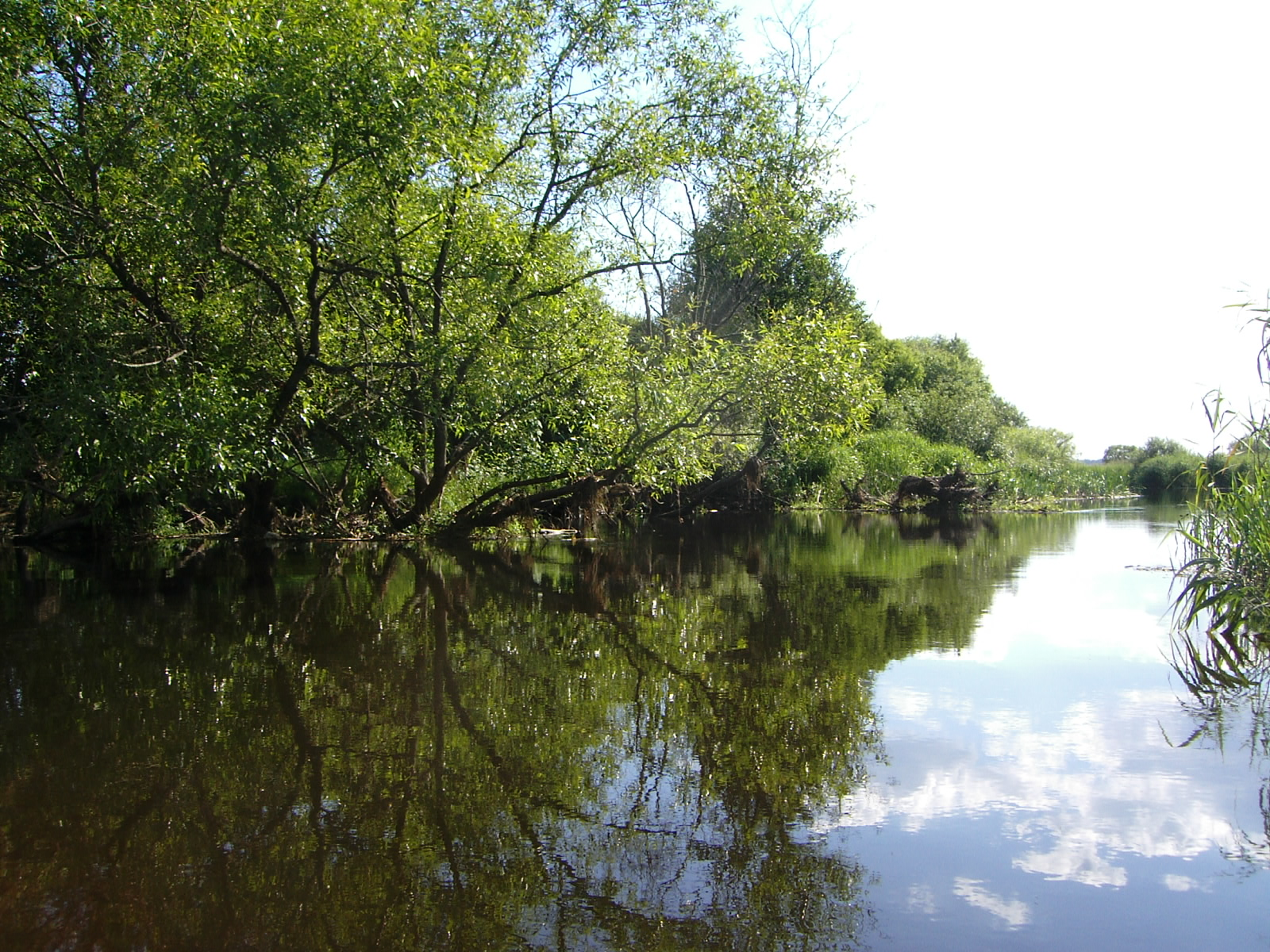 Servach River, Minsk Region, Belarus